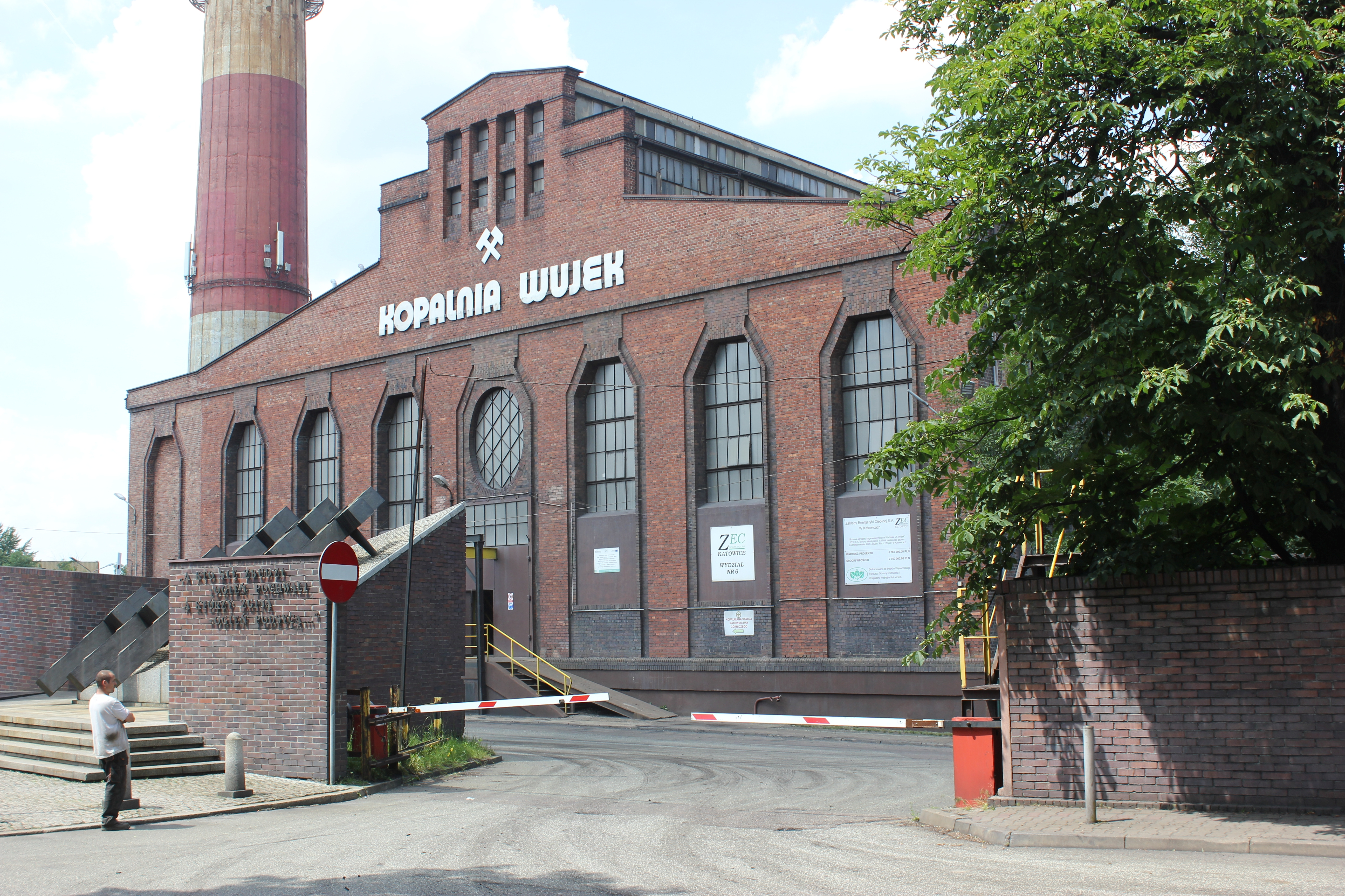 Katowice - "Wujek" coal mine